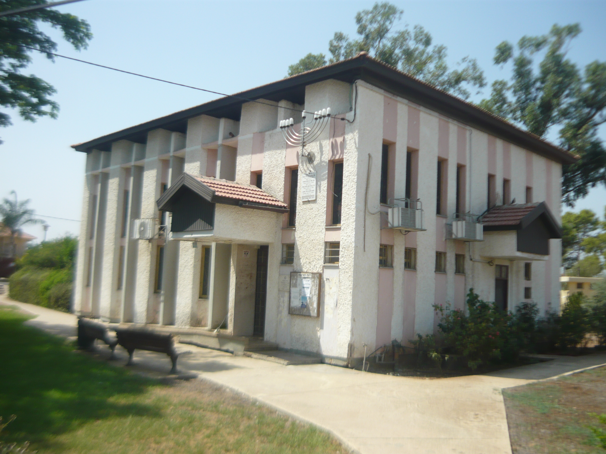 synagogue in avital בית הכנסת במושב אביטל